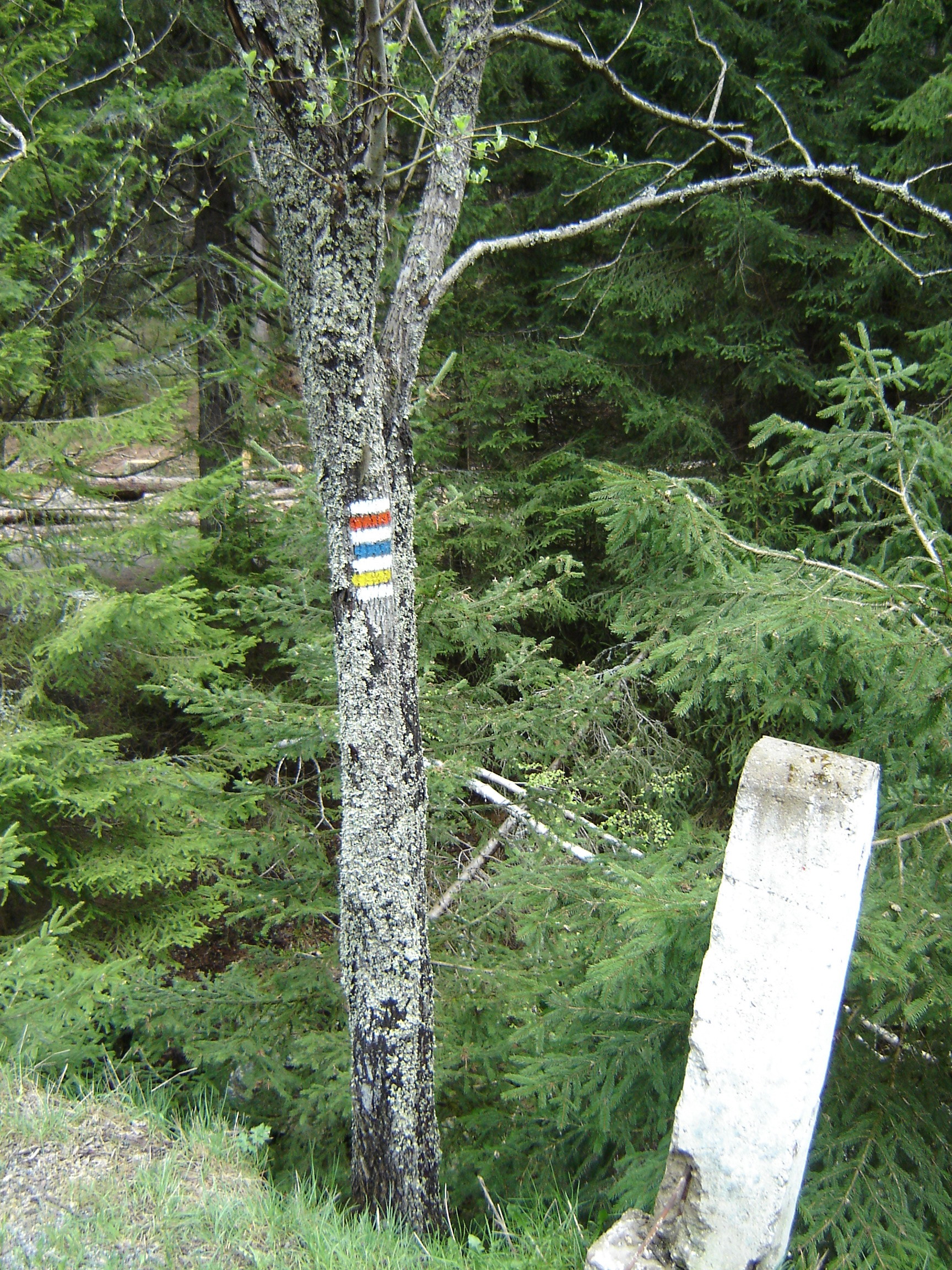 Signs of three hiking trails on a tree near river Vydra, Bohemian Forest